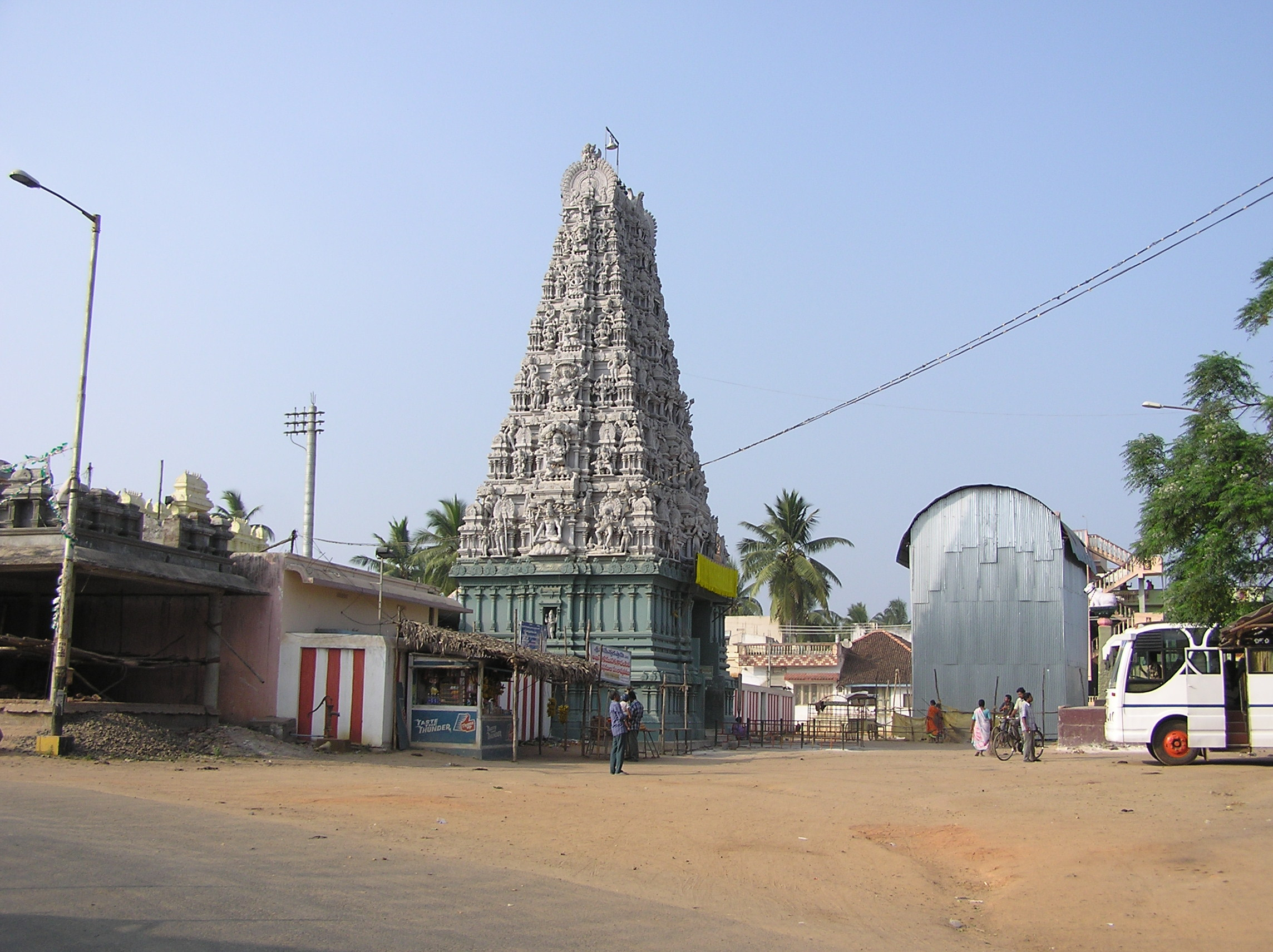 Someswaraswamy temple